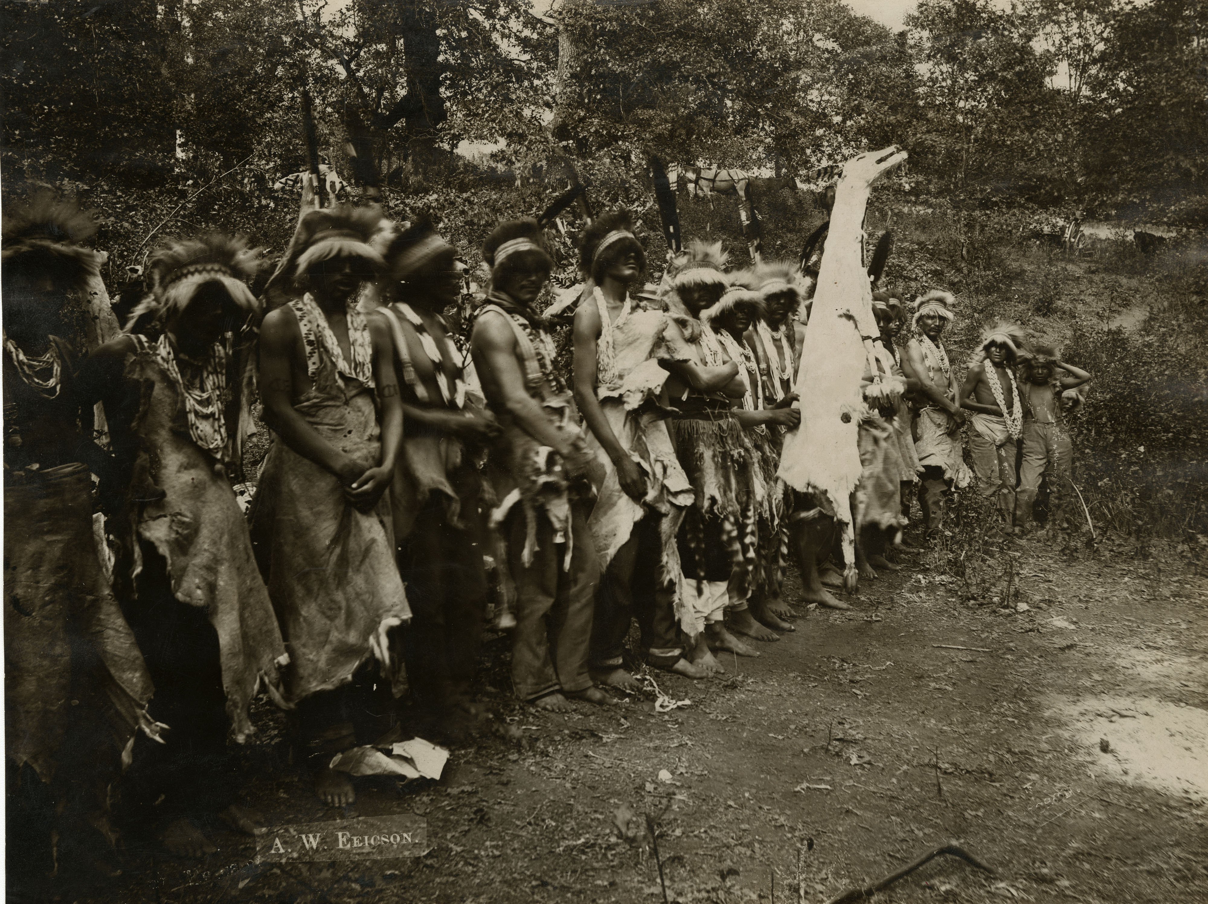 Hupa people hold White Deer Skin dance along Redwood Highway Digitized for "Picture This: California Perspectives on American History," a project of the Oakland Museum of California Museum Technology Initiative for Educational Outreach